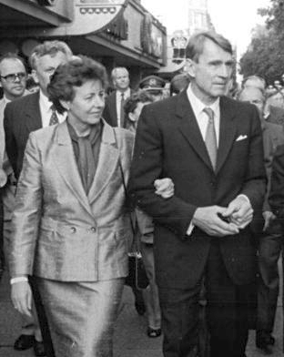 Mauno Koivisto, the president of Finland, (on the middle) in Dresden, German Democratic Republic on 30 September 1987. Mrs Tellervo Koivisto on the left and Wolfgang Berghofer, the lord mayor of Dresden, on the right.